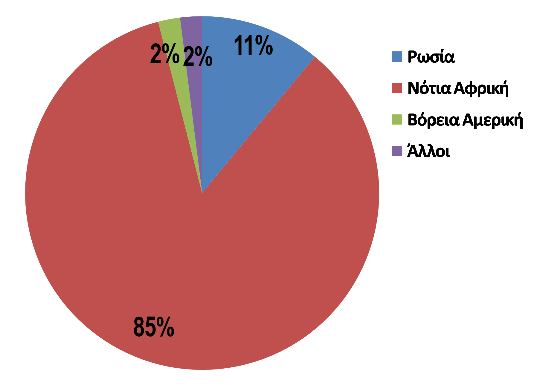 Pd supply 2007 (822000 oz)